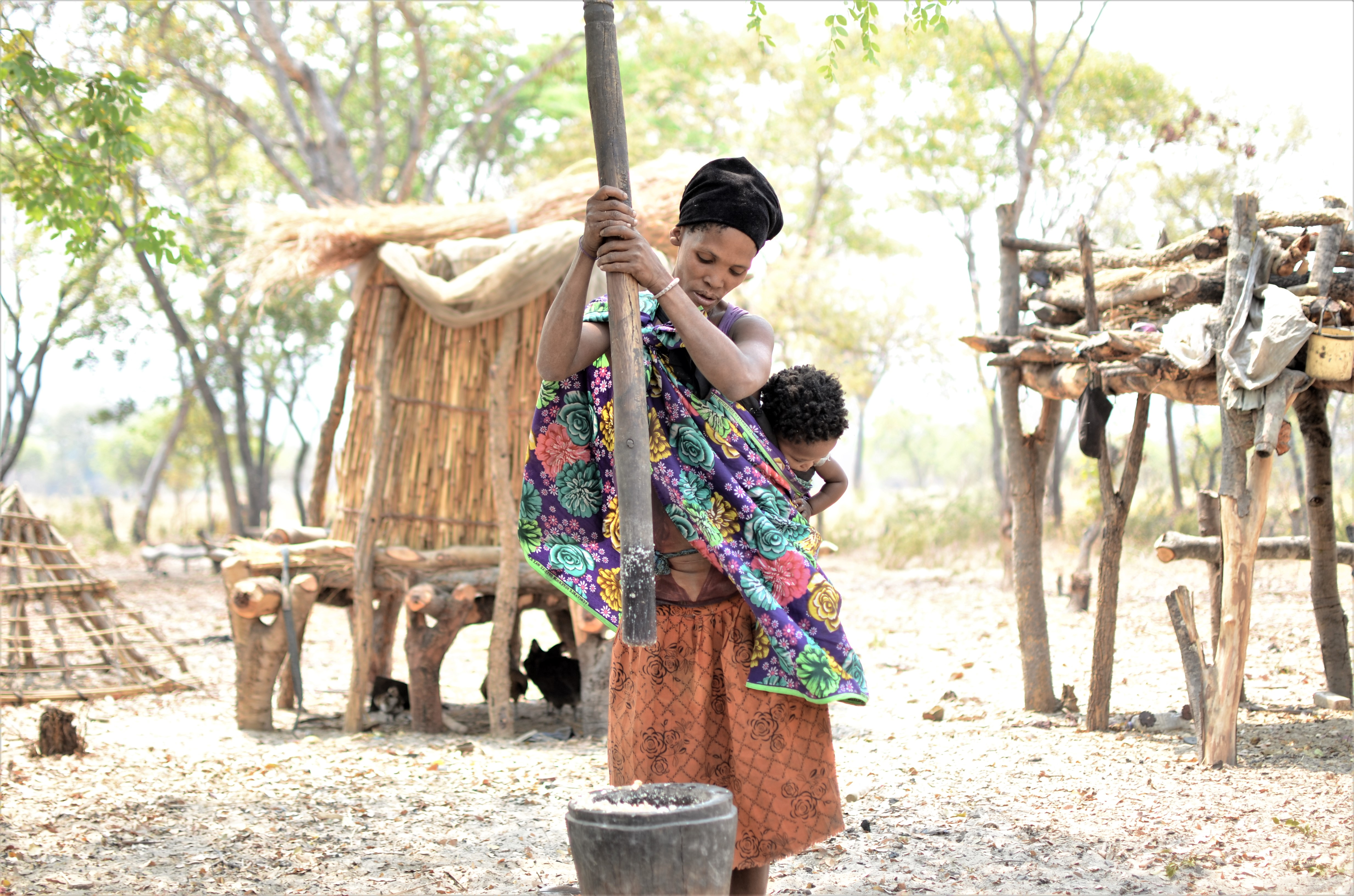 A Bushman woman in Angola grinds meal with a child on her back. This is an image of "African people at work" from Angola